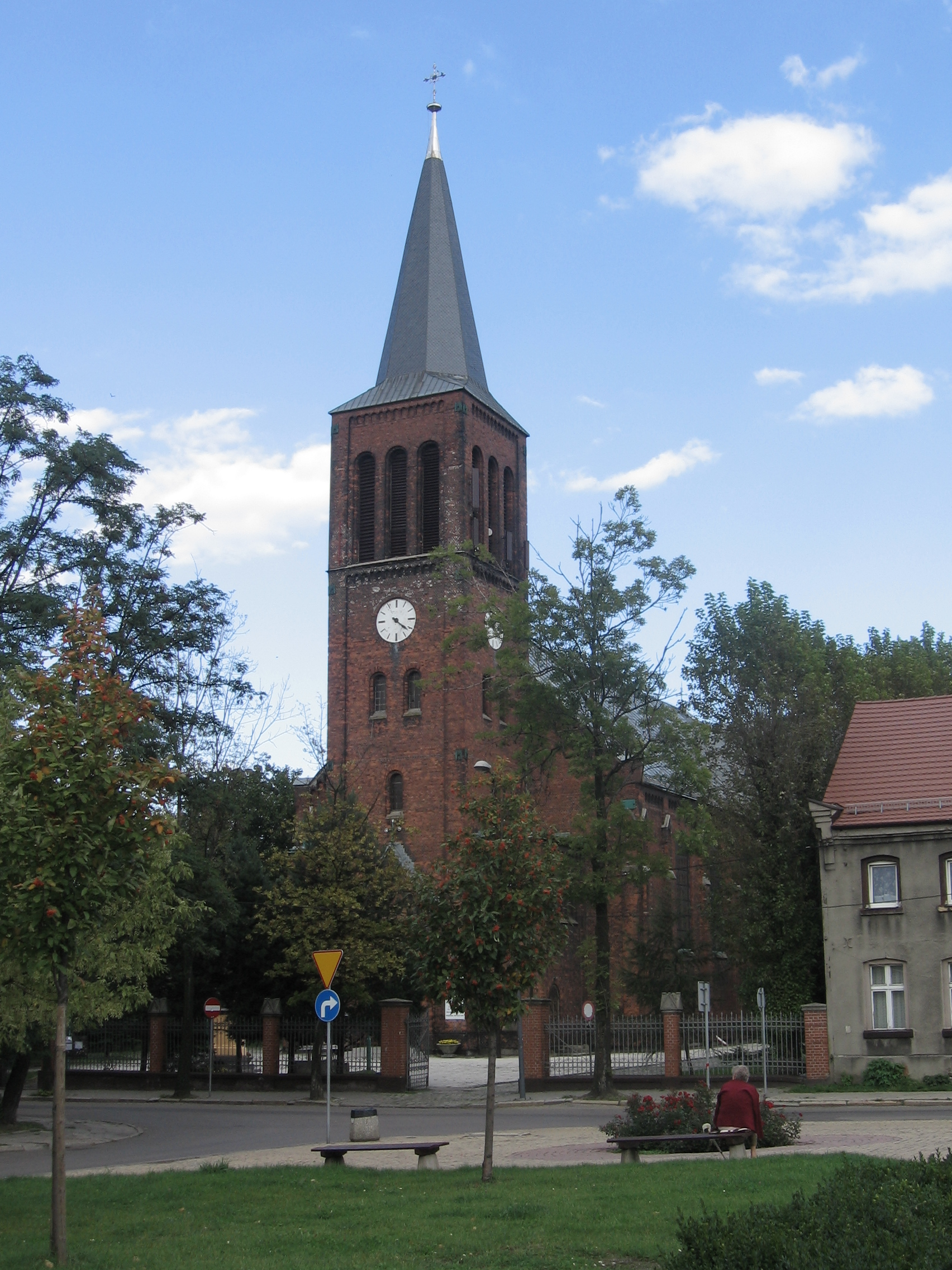 The Roman Catholic church of John of Nepomuk in Bytom-Łagiewniki, Poland (project: Paul Jackisch).